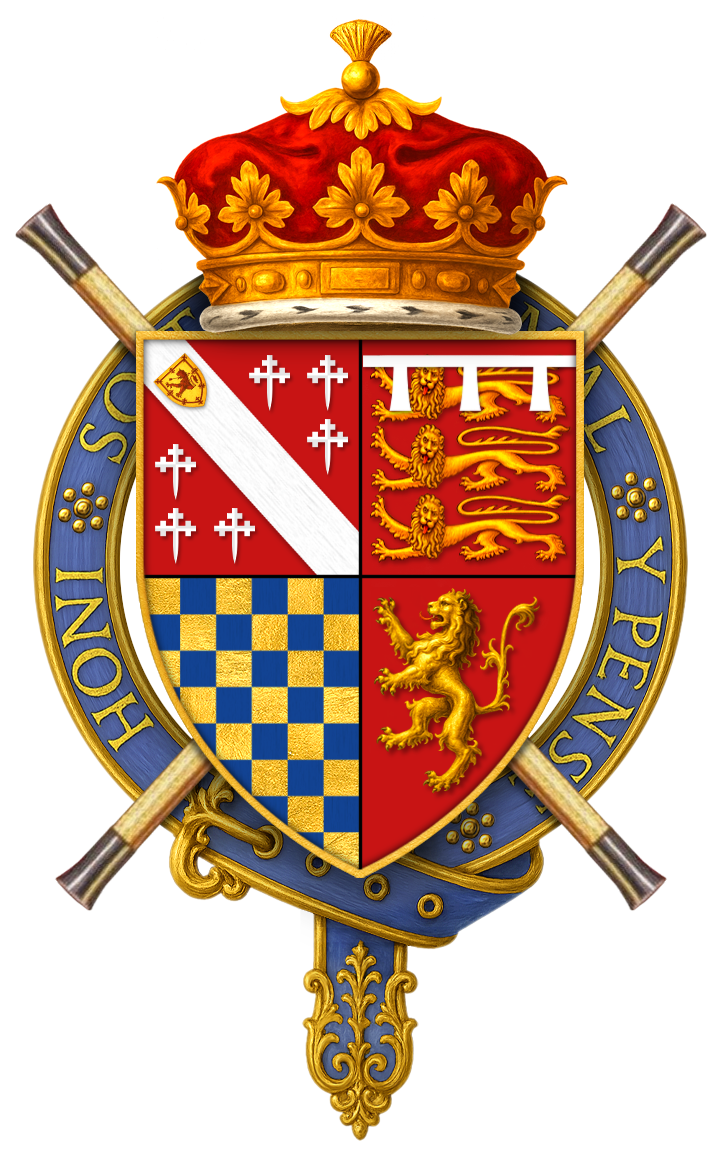 Shield of Arms of Bernard Fitzalan-Howard, 16th Duke of Norfolk, KG, GCVO, GBE, TD, PC